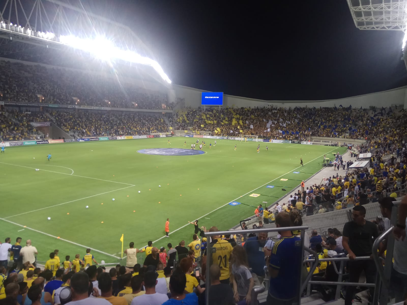 Maccabi Tel Aviv F.C. play Bnei Yehuda in the 2019–20 Premier League to a crowd of 26,513.